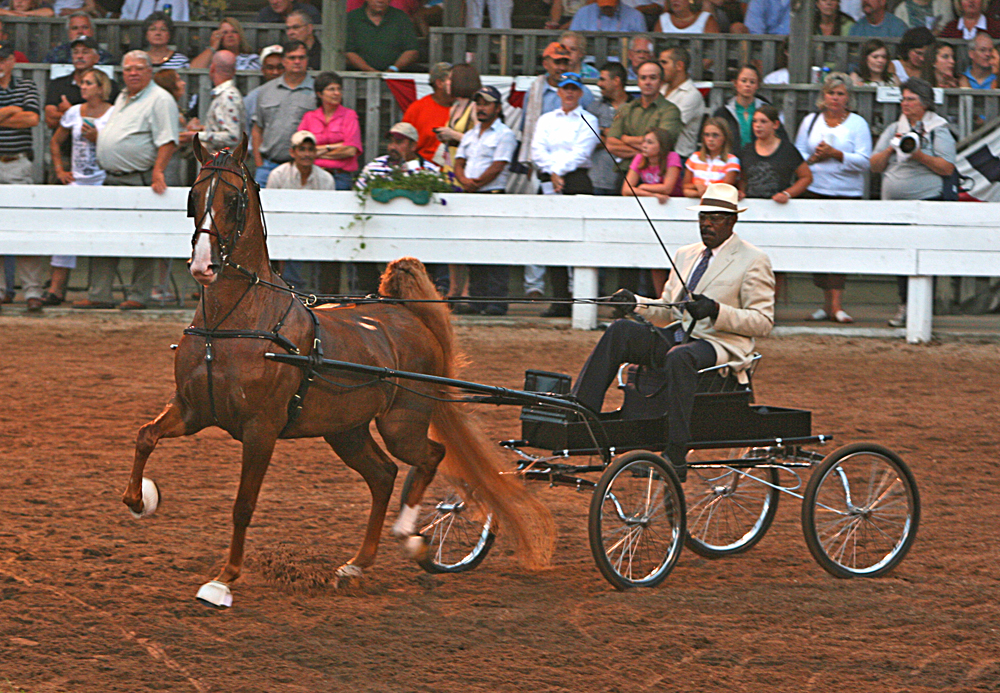 Photo by Heather Abounader